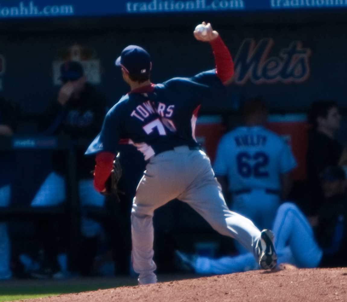 Josh Towers